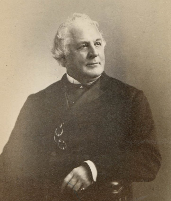 Portrait of John Jay II